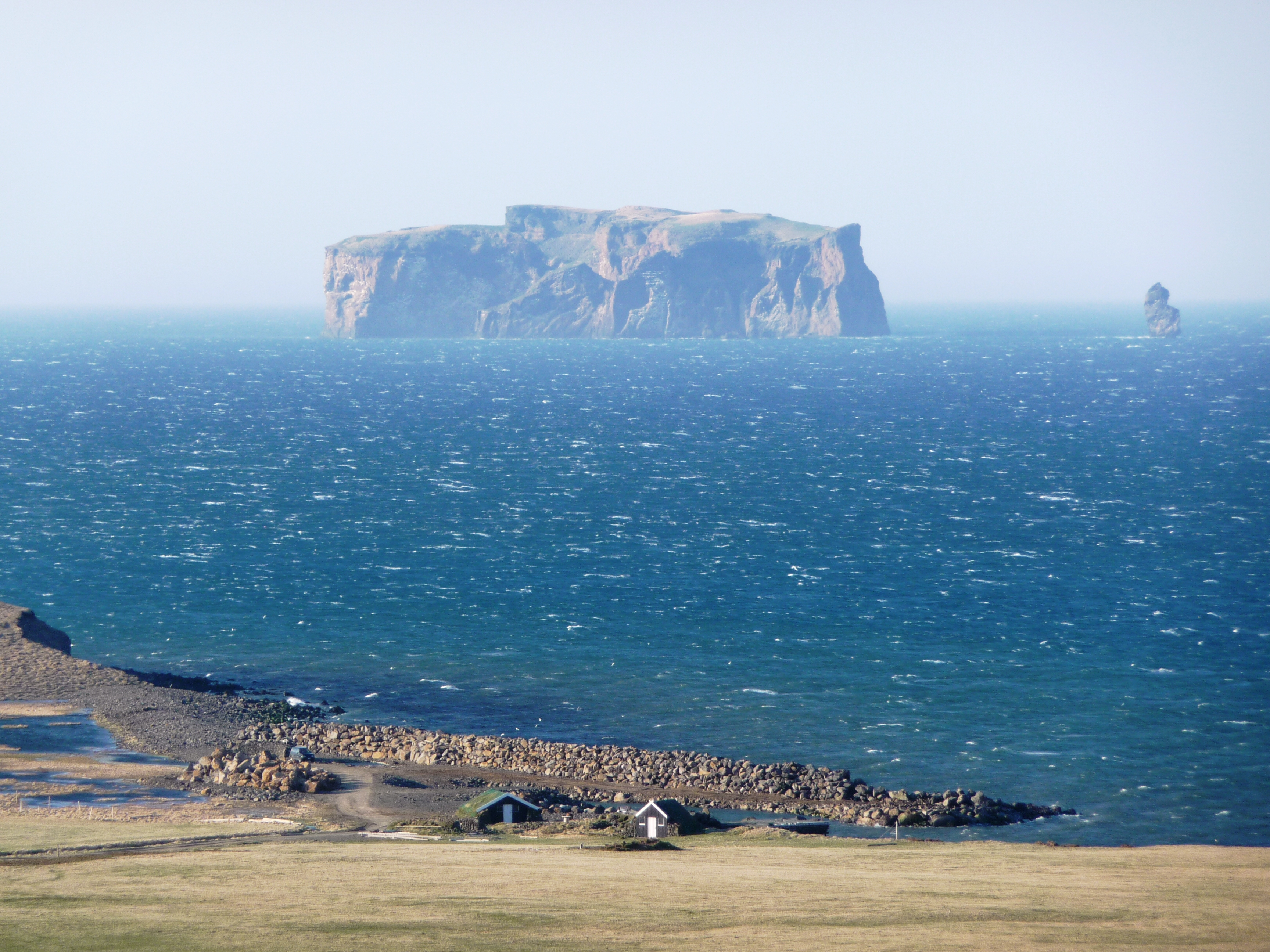 Drangey is an island located in Skagafjörður in the north of Iceland. The hot spring, Grettislaug is in the bottom left of the picture.